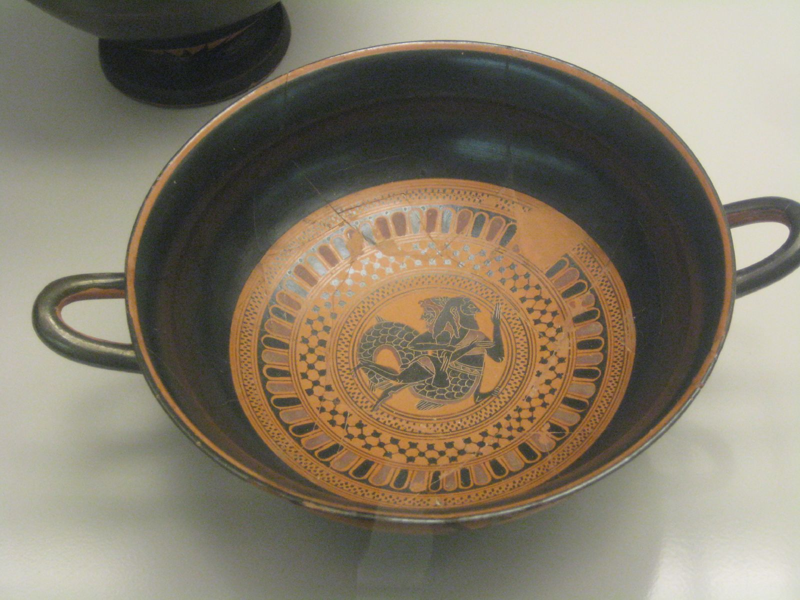 Made in Athens about 570 - 560 BC. Related (whatever that means!) to the C Painter.